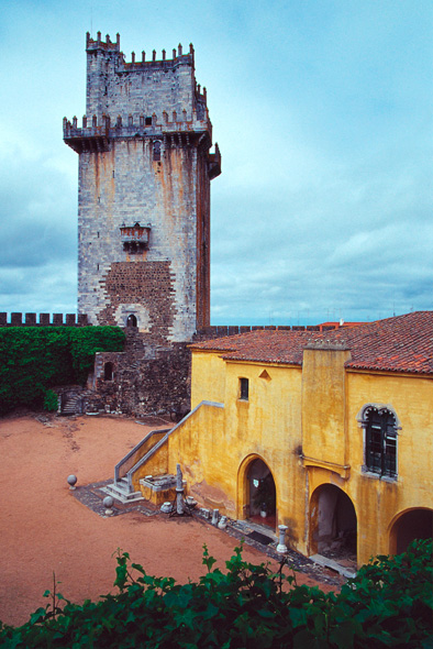 The castle keep and a building in side Beja Castle used as the administration centre. The castle is located in the city of Baja, Alentejo, Portugal